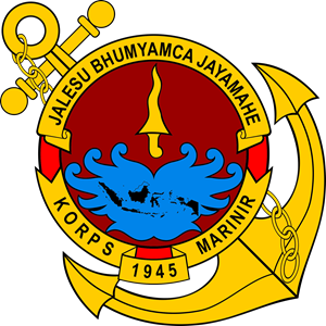 Indonesian Marine Corps emblem